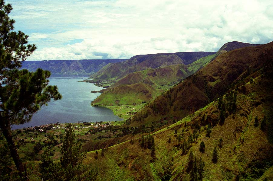 View of Lake Toba, Sumatra, Indonesia. Tree at left is Pinus merkusii.